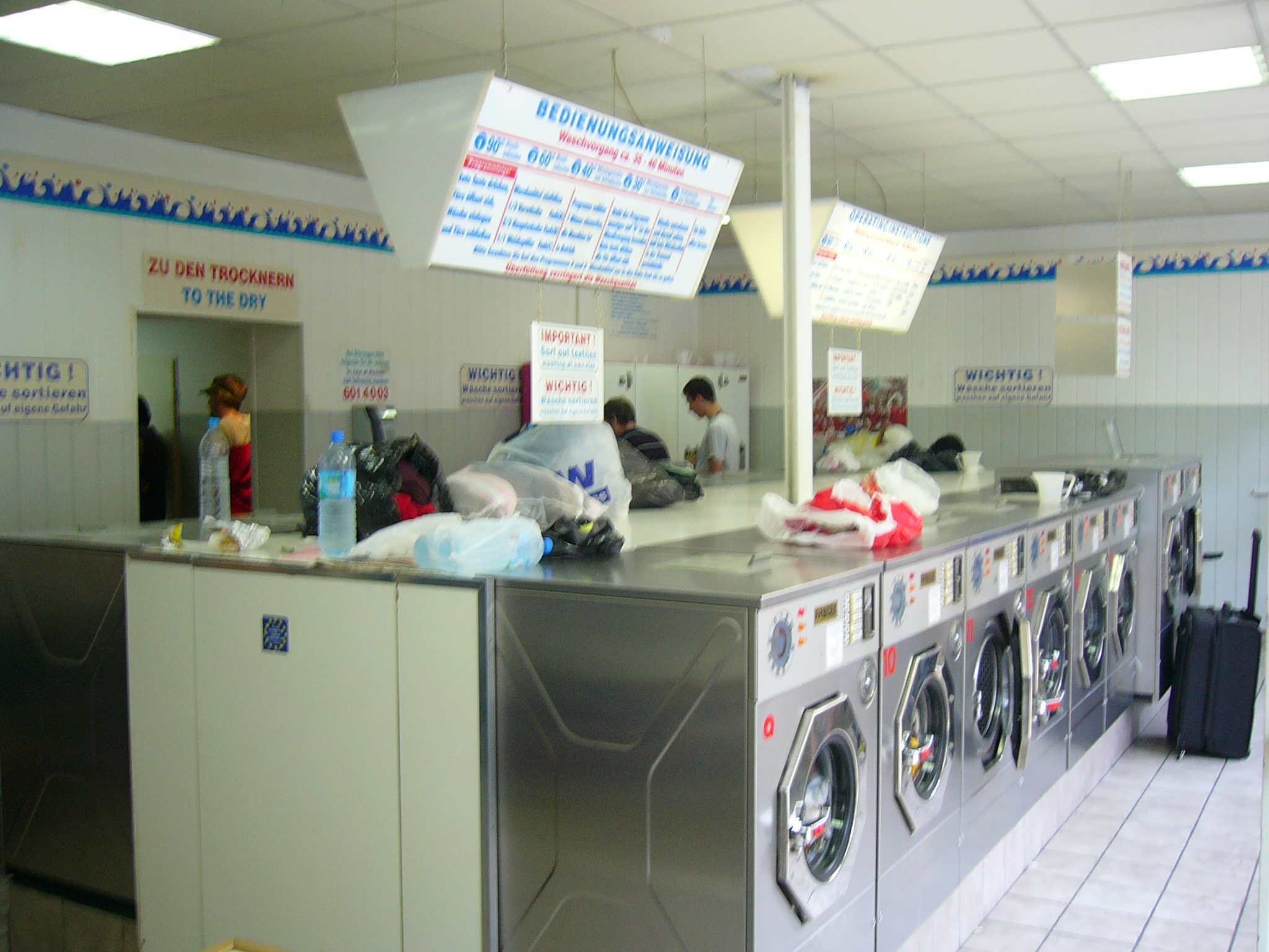 Laundromat in Munich, Germany